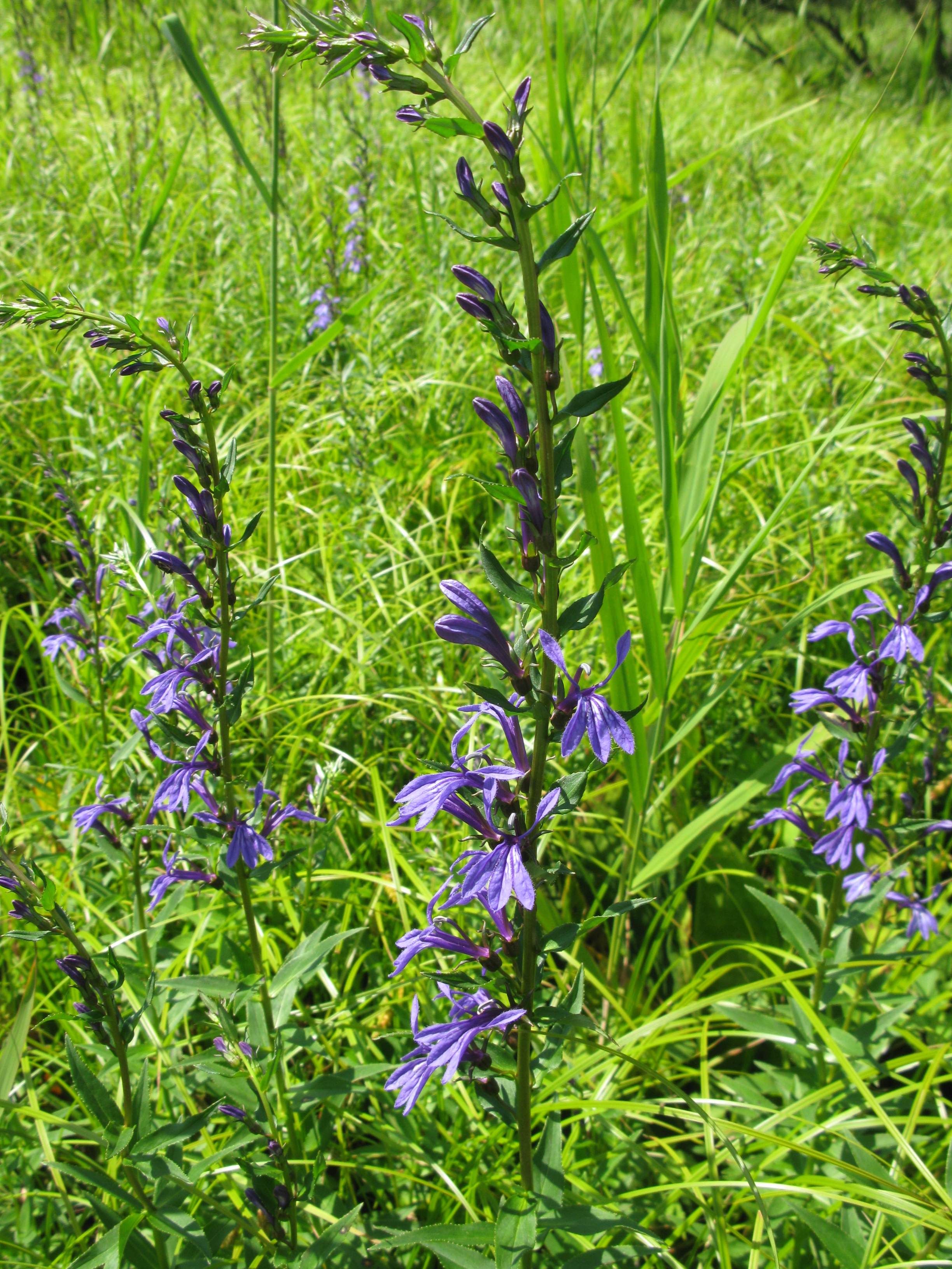 Lobelia sessilifolia, Ozegahara, Japan